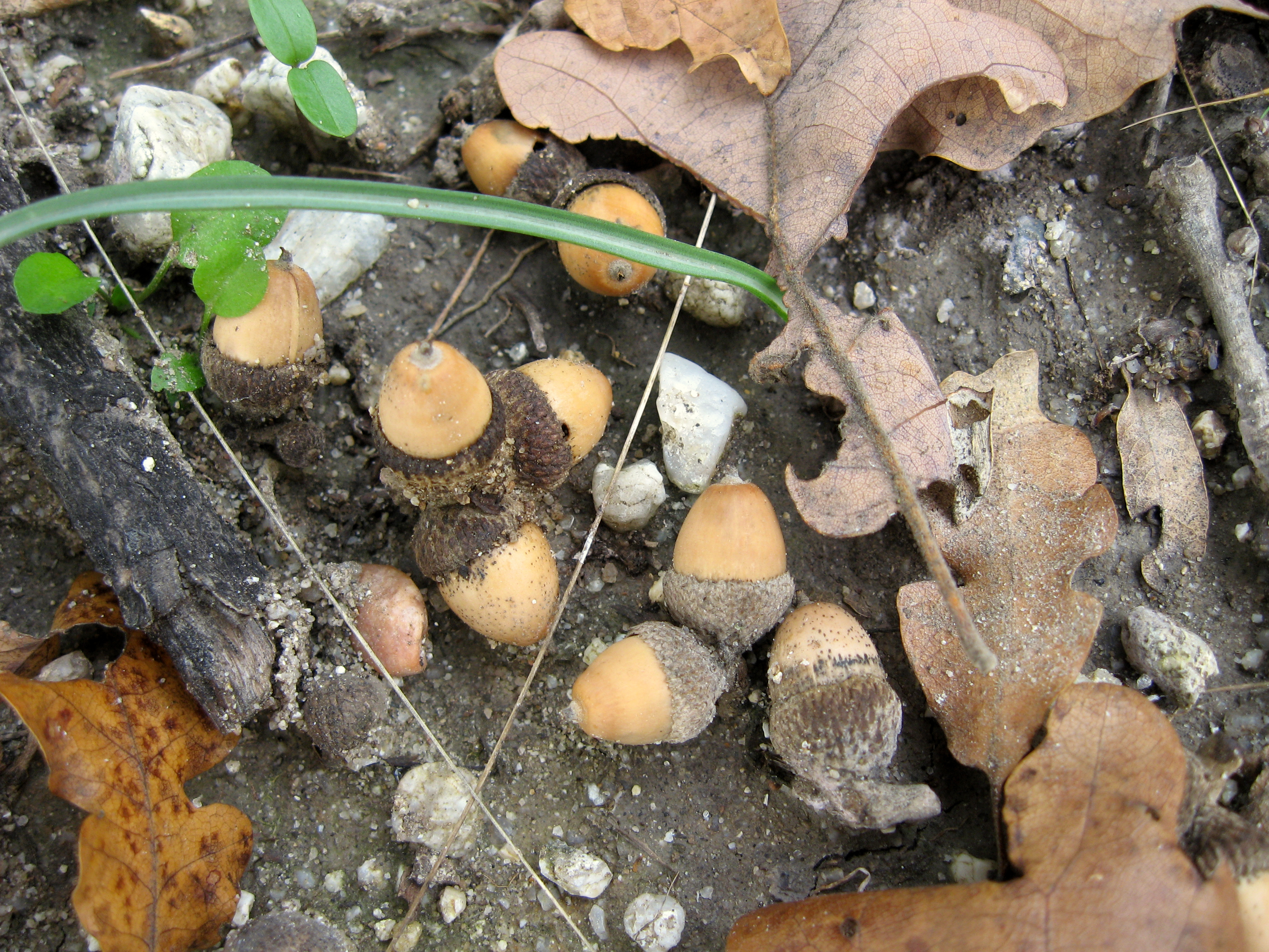 Park Kenana - acorns